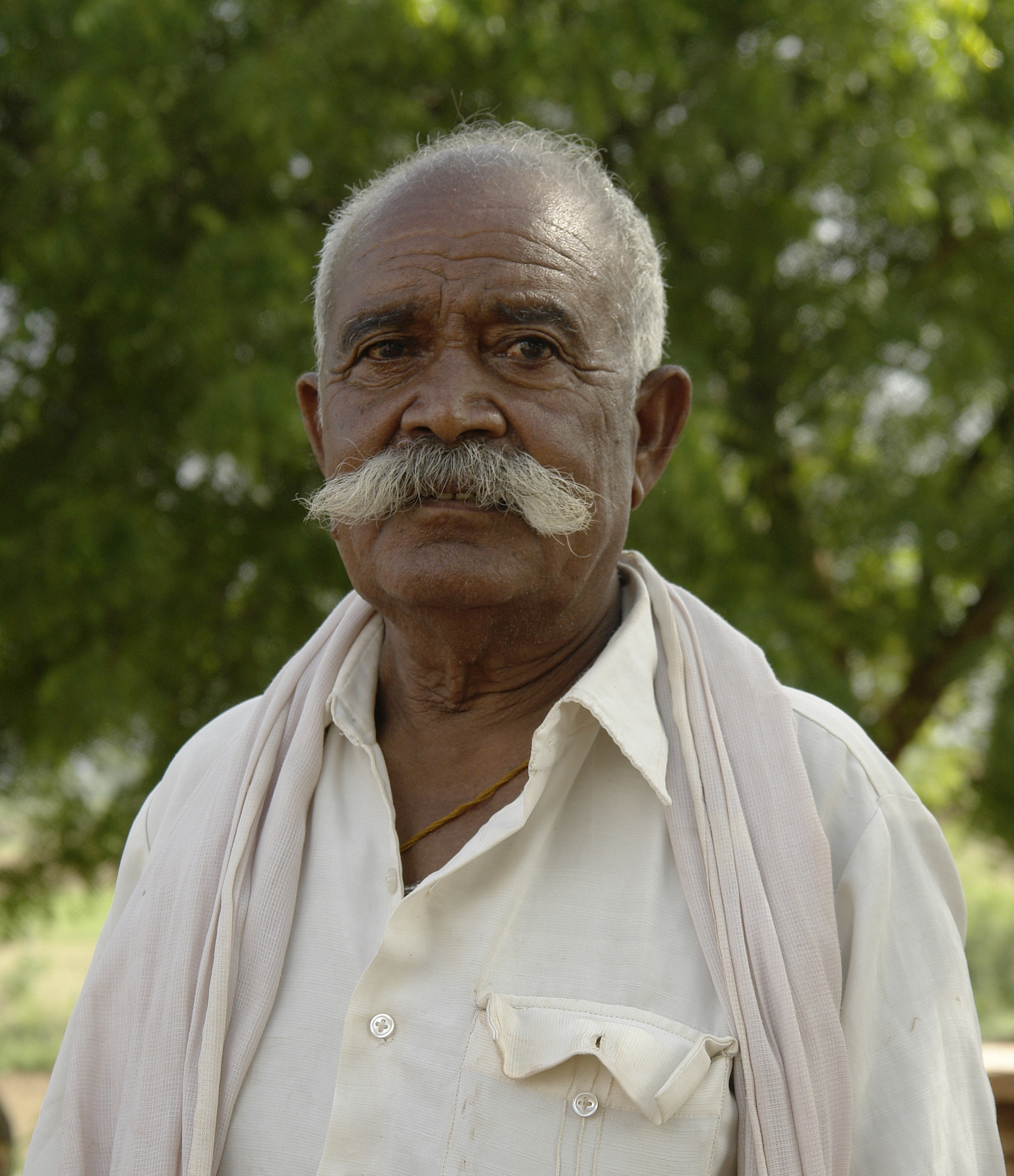 Man with a moustache, Chambal, India.